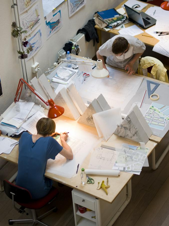 Landscape Architecture students at SLU in Alnarp. Photo by Julio Gonzalez, SLU